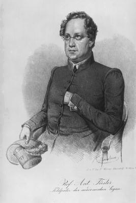 Anton Fister (Füster) (5 January 1808 - 12 March 1881), Roman Catholic priest, theologian, pedagogue, radical political activist and author of Slovene origin.